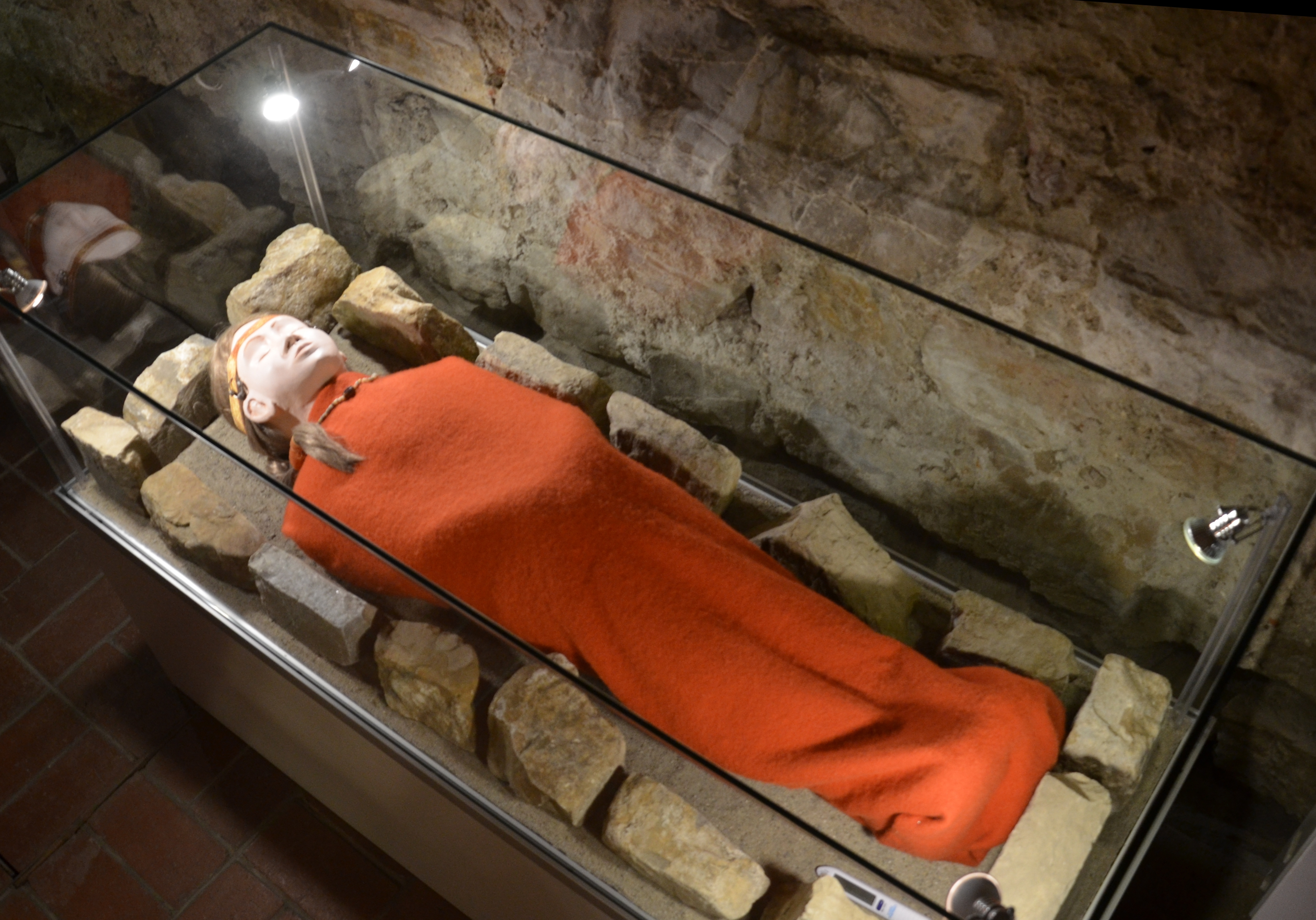 Mädchen-Grab mit Steinsetzung, Sanok-Trepcza am San